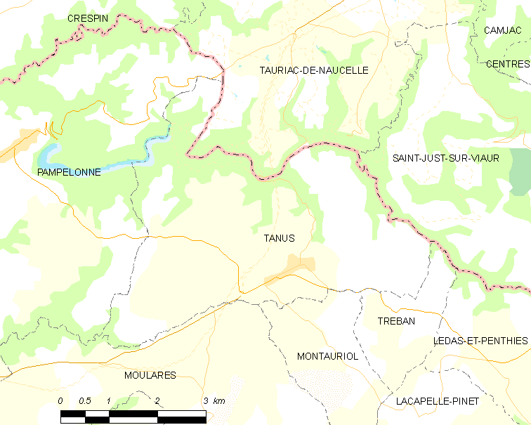 Map of French municipality Tanus